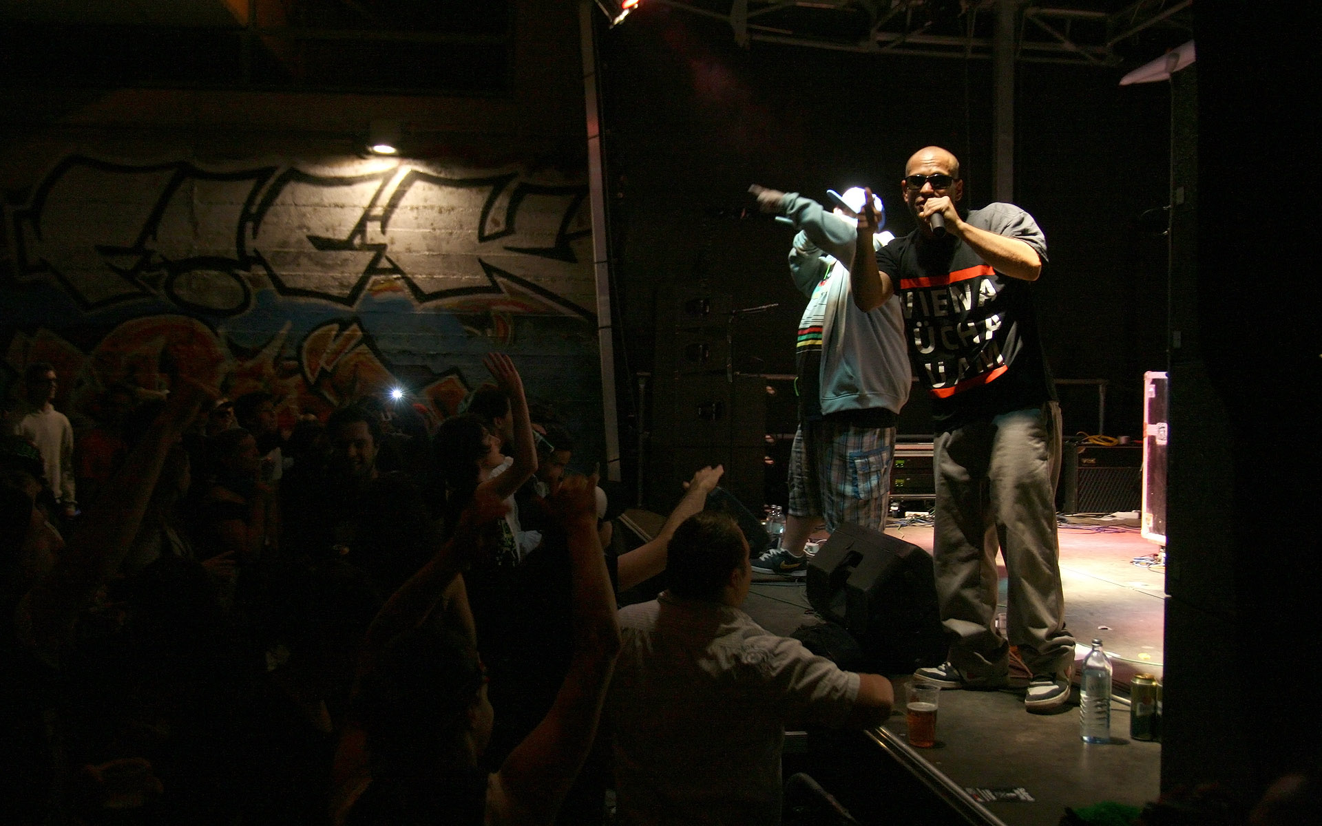 A.geh Wirklich?, Donaukanaltreiben 2012 in Vienna.